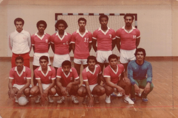 Al-Arabi team handball 1986.